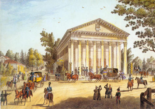 Kamenny Island Theatre (painting)